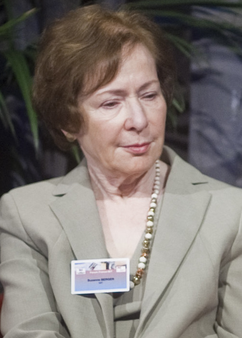 France - MIT conference